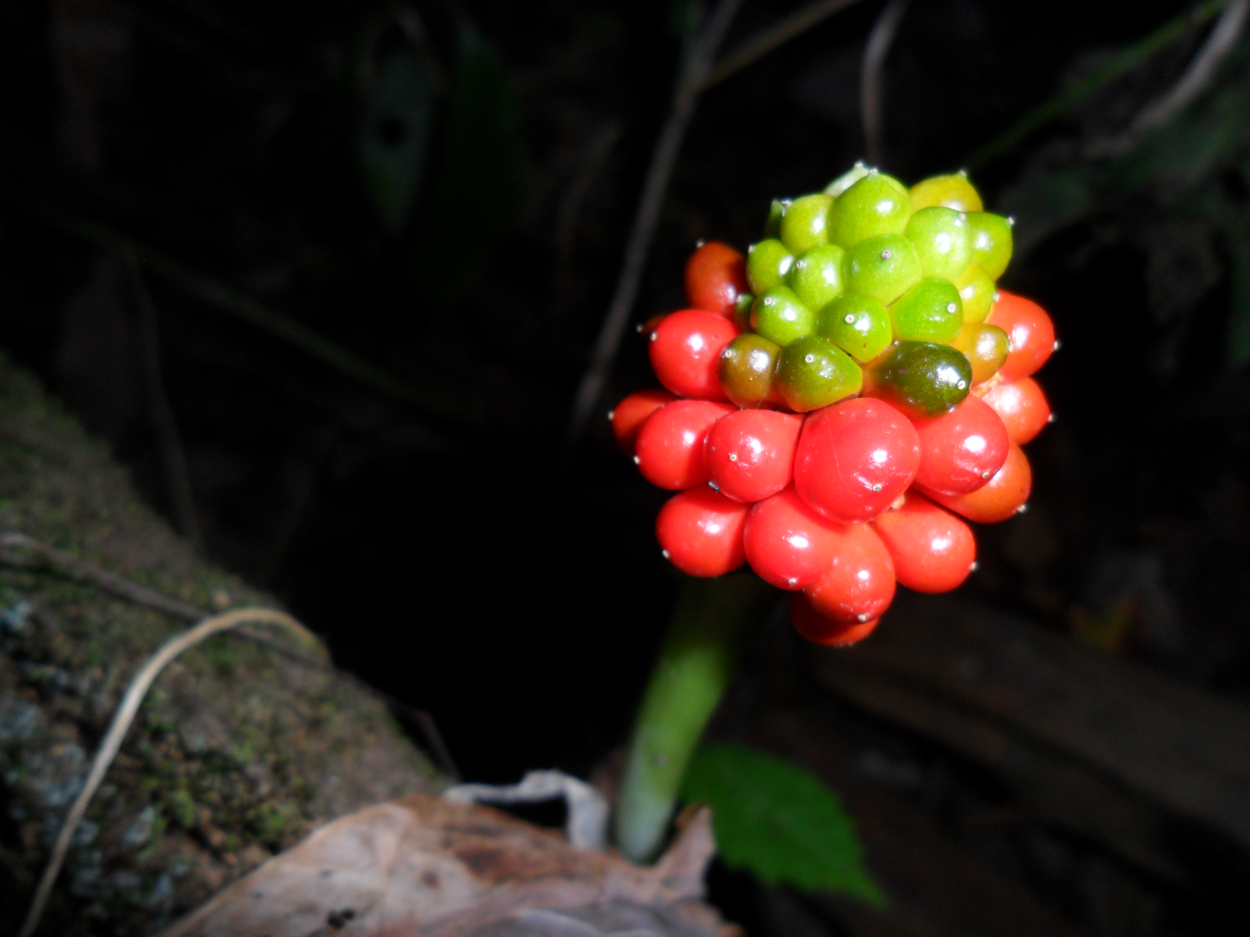 Jack-in-the-pulpit seed berries